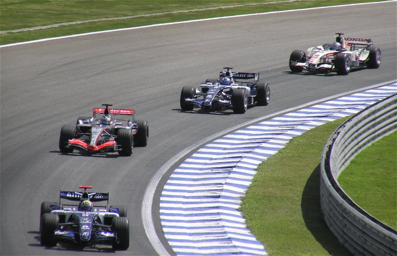 Formula One 2006 Rd.18 Interlagos: Williams duo in first lap #9 Mark Webber (Williams) #4 Pedro de la Rosa (McLaren) #10 Nico Rosberg (Williams) #12 Jenson Button (Honda)